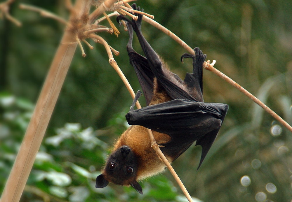 Pteropus giganteus, Zoological Garden Berlin, Germany